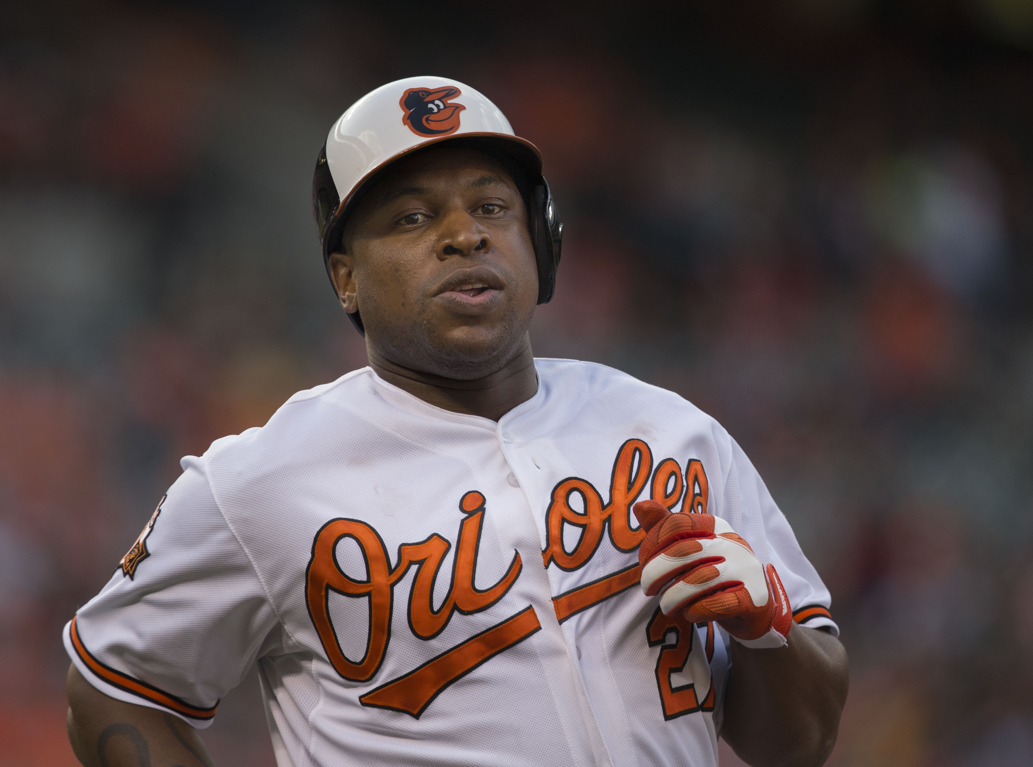 Delmon Young